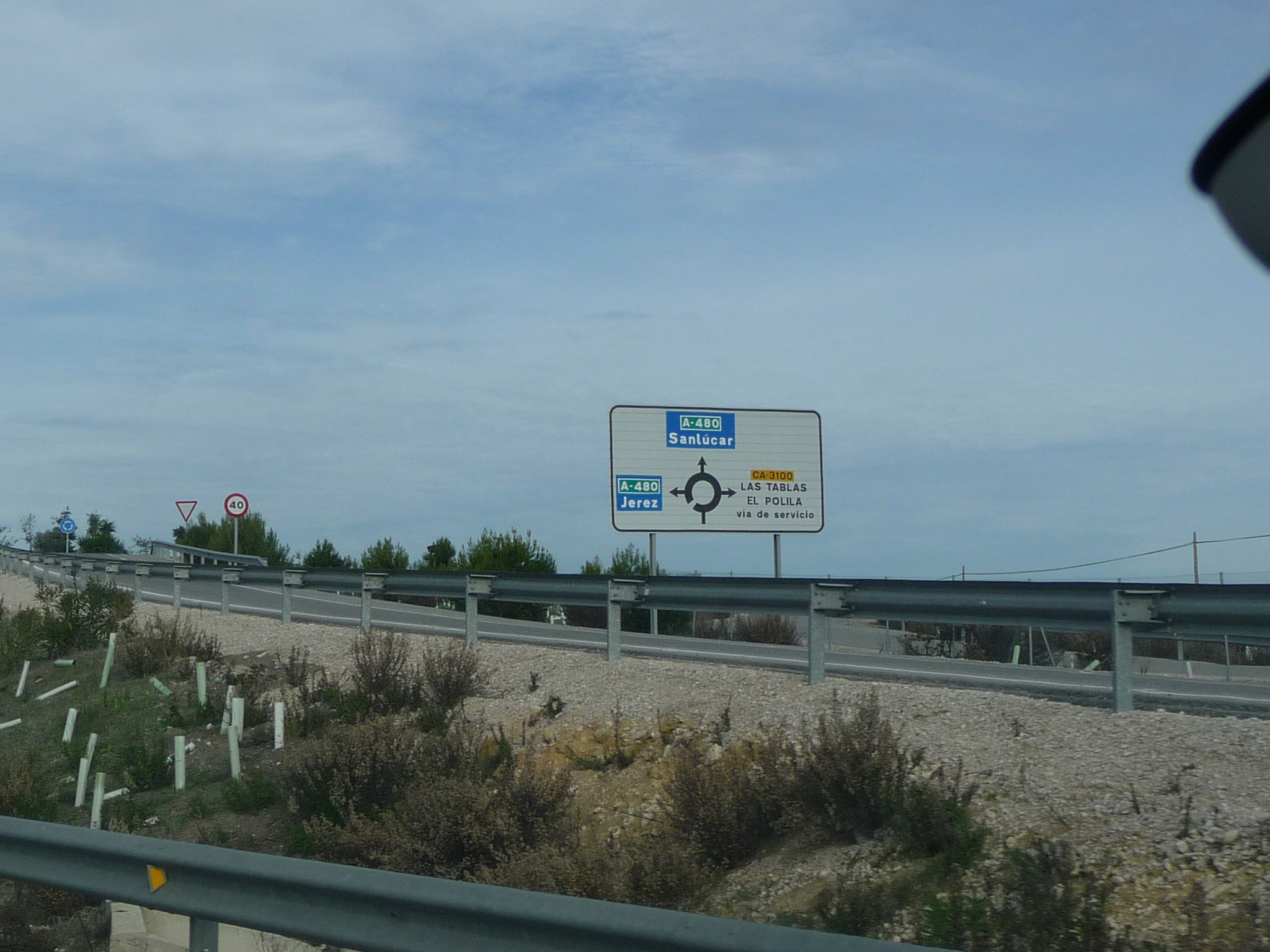 A-480 road to Las Tablas, Polila y Añina (Jerez)